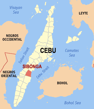 Map of Cebu showing the location of Sibonga